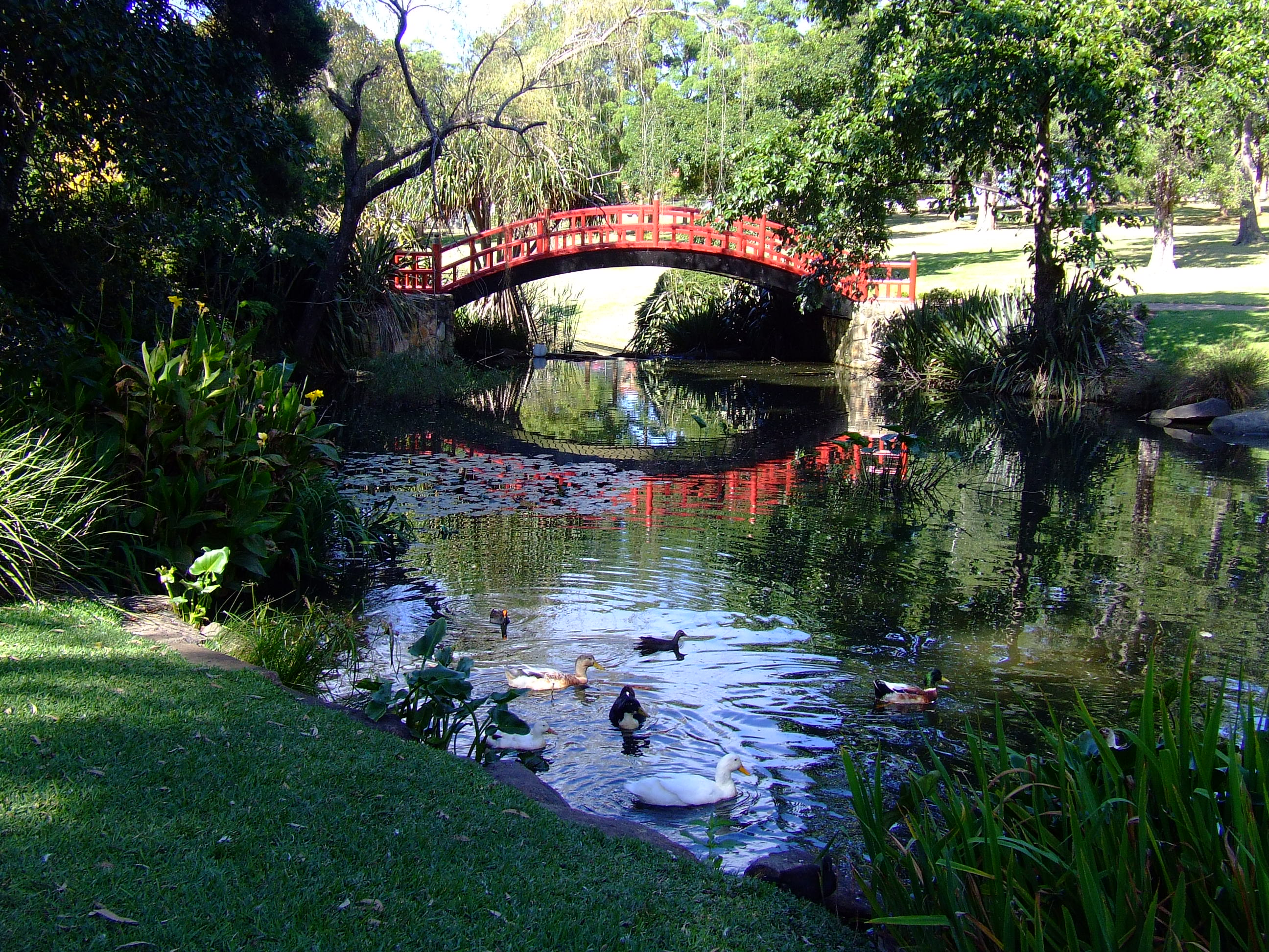 Photograph of the Kawasaki bridge in the Wollongong Botanical Gardens, Wollongong NSW Australia.